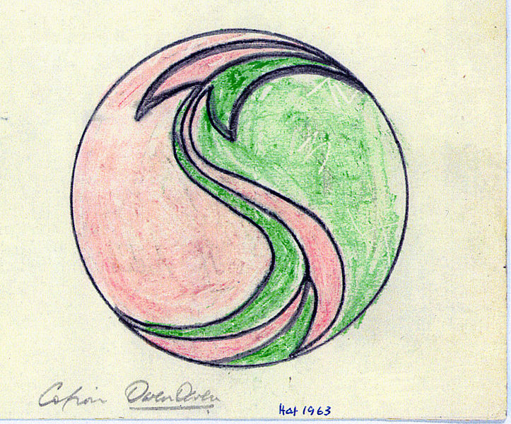 Sketch of a Dragon's Tongue for his pamphlet of the same name (Tafod y Ddraig) and as logo to the society (Cymdeithas yr Iaith Gymraeg).